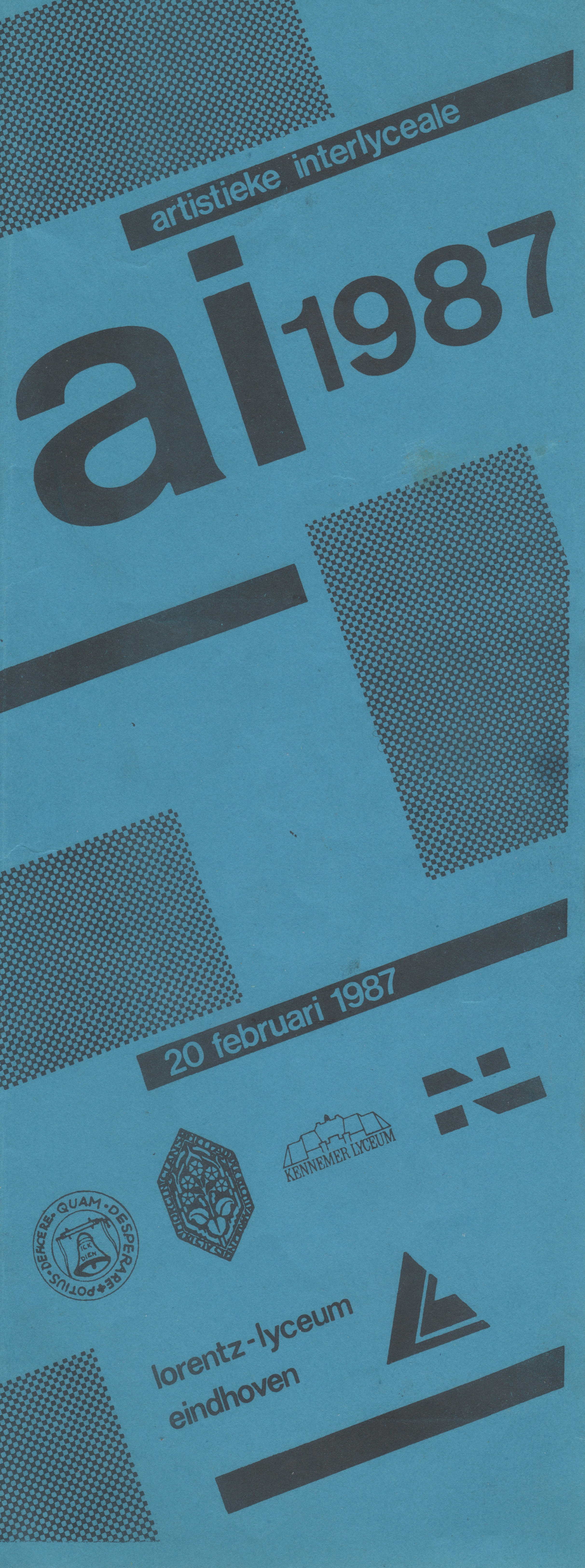 CoverAI87